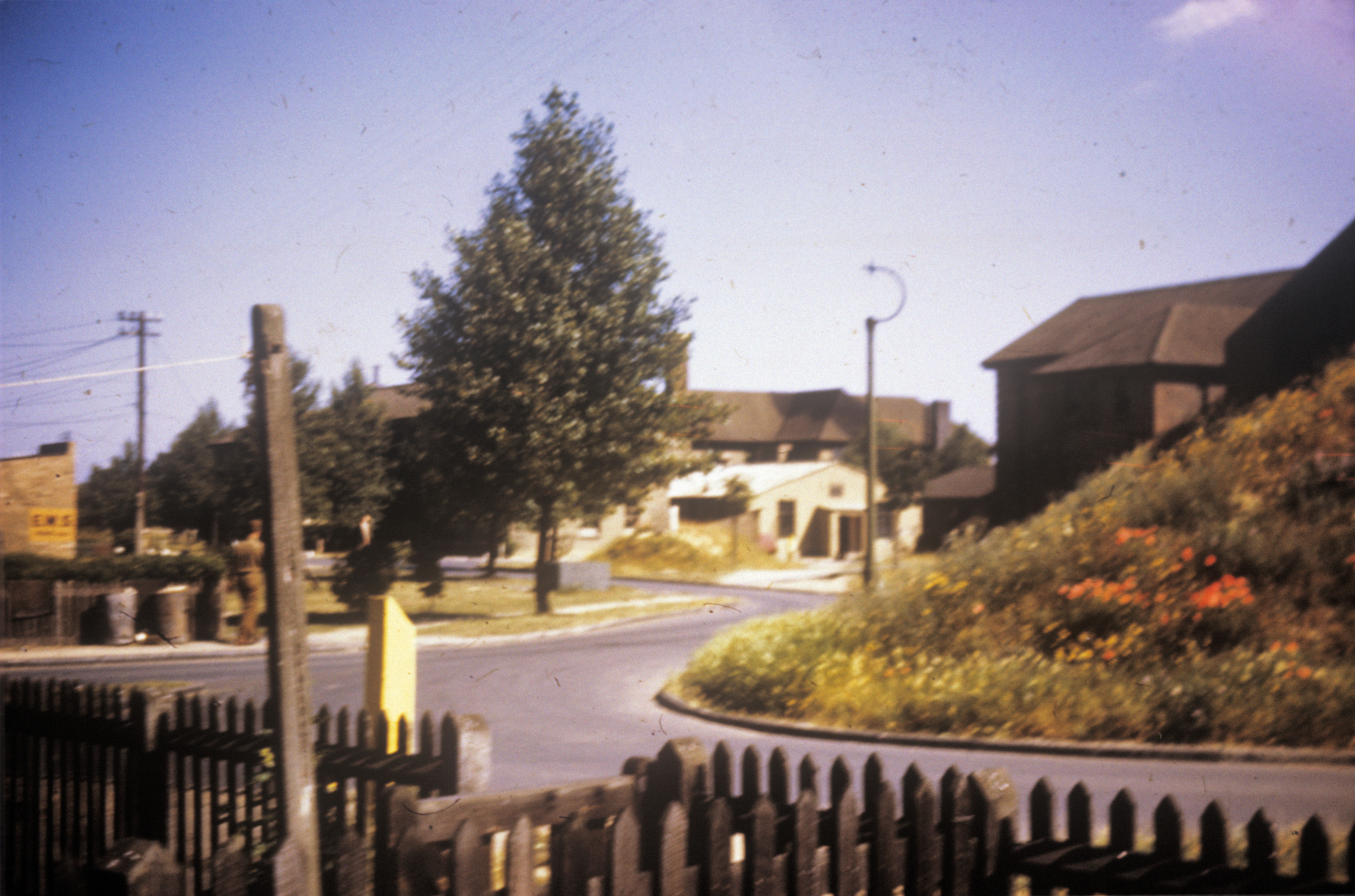 Buildings at Duxford airfield, home of the 78th Fighter Group, during the Second World War. The building in the left of the photograph is designated “E.W.S.”. This was the Emergency Water Store – which contained 100,000 gallons of water. Handwritten on slide:"Duxford 1945 camp Mason Barnard".